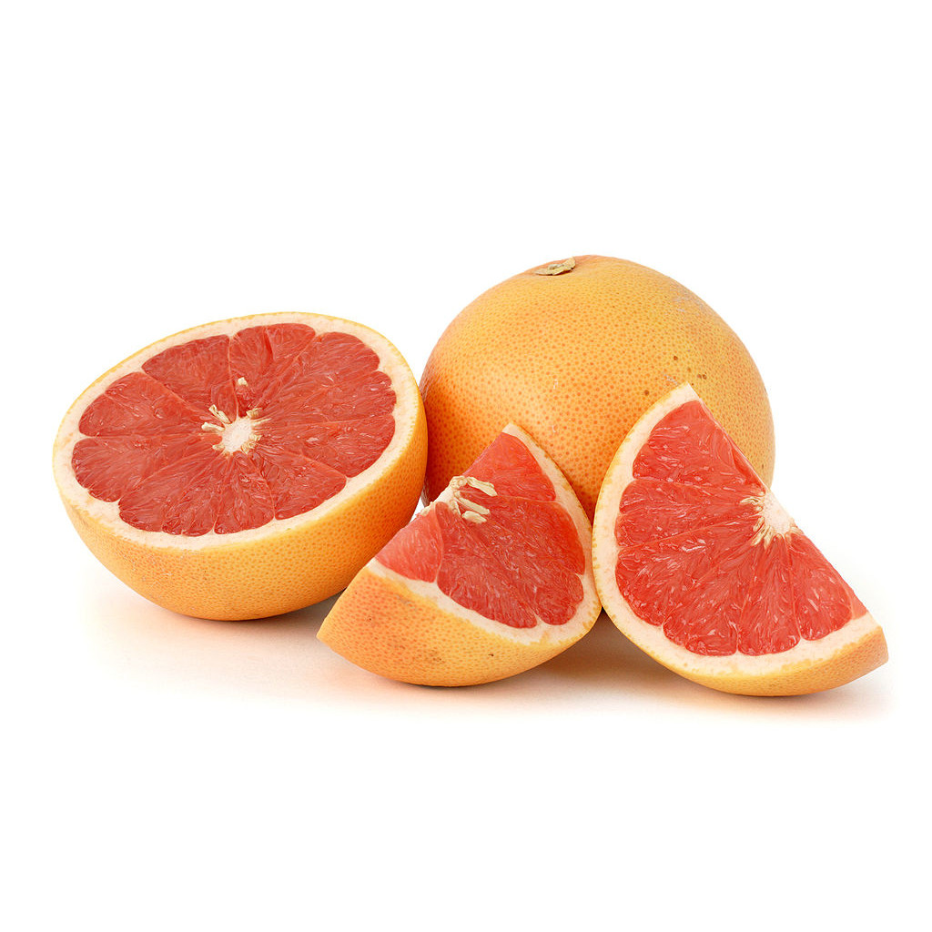 This photograph shows two pink grapefruits (Citrus ×paradisi) var. Ruby Red, one of the two cut in pieces.